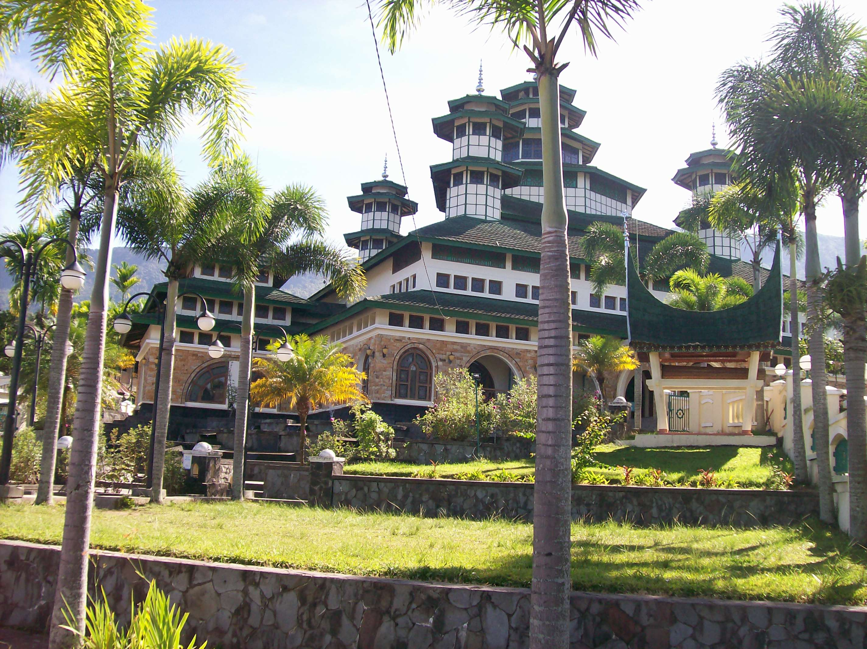 Masjid Raya Bayur 2012